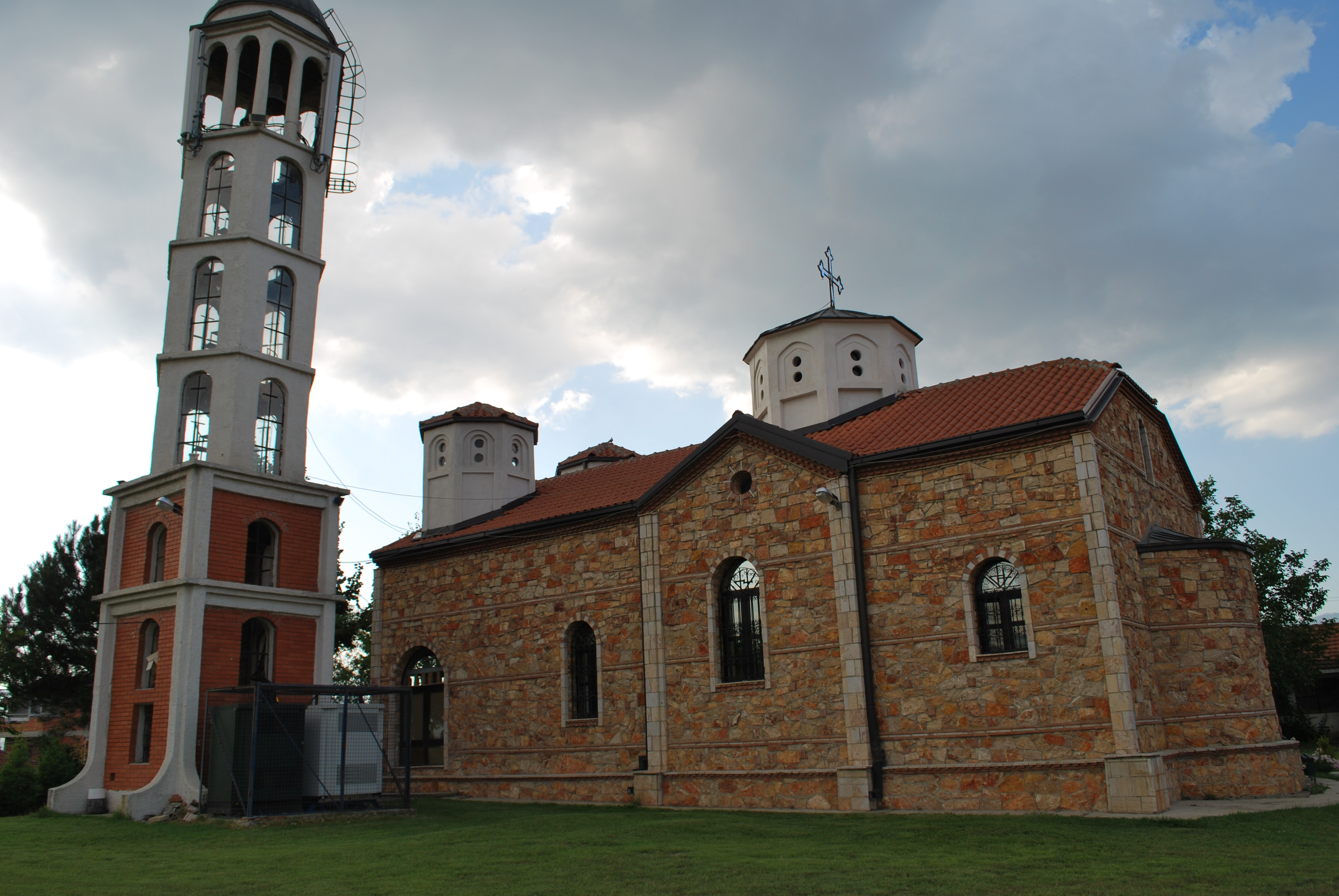 Holy Trinity Church in Bardovci near Skopje, Macedonia